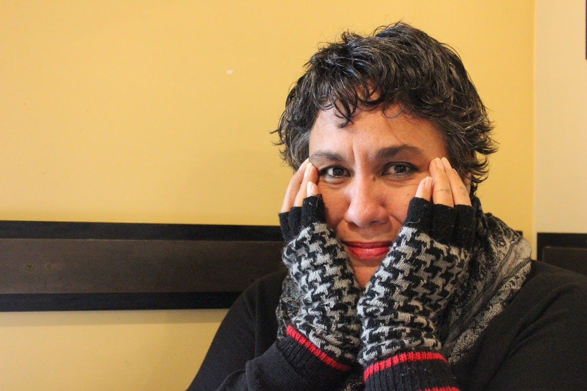 Photographed by Sean Schmidt, Seattle Washington.